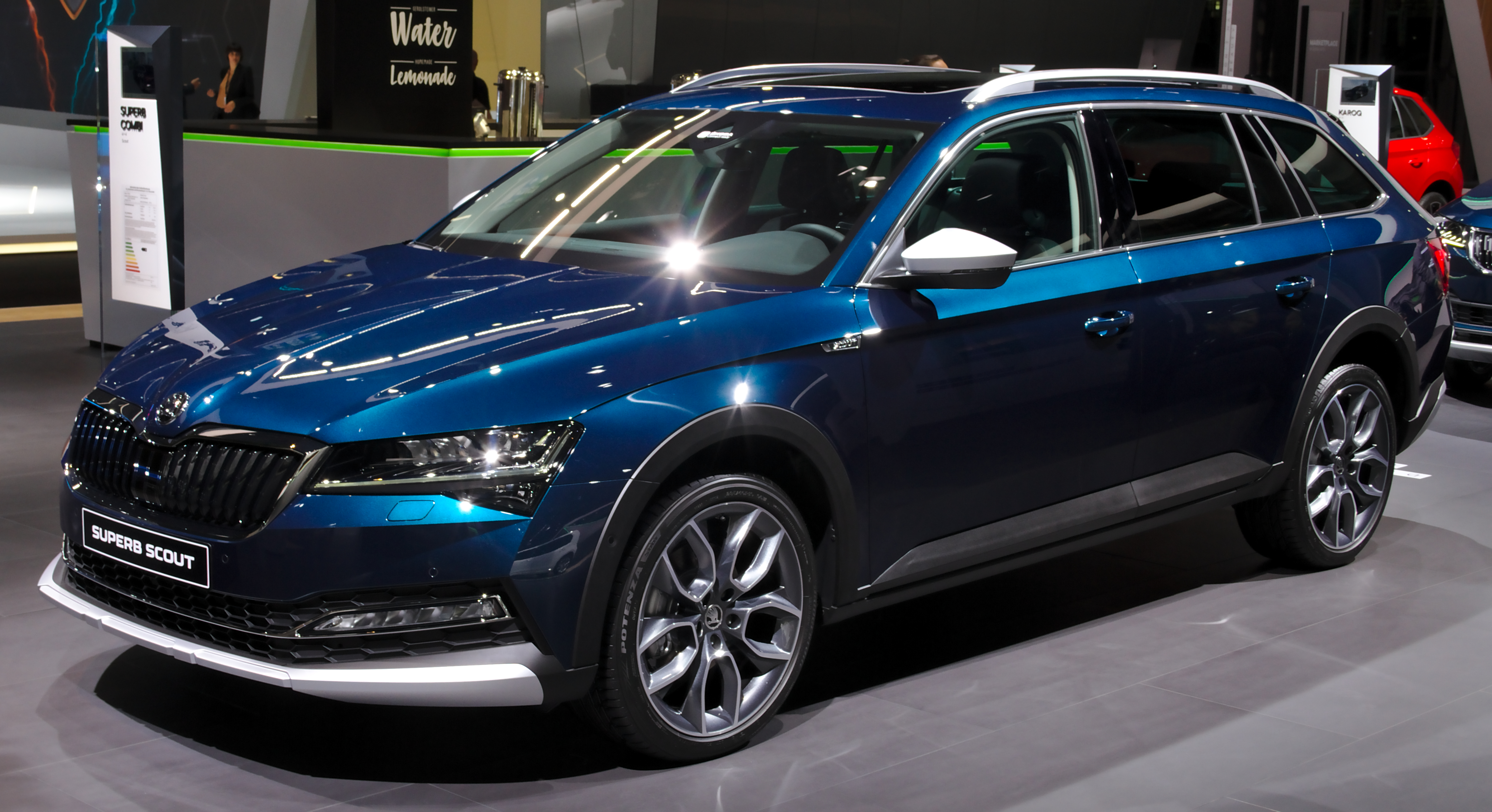 Škoda_Superb_III_Combi_Scout at IAA 2019